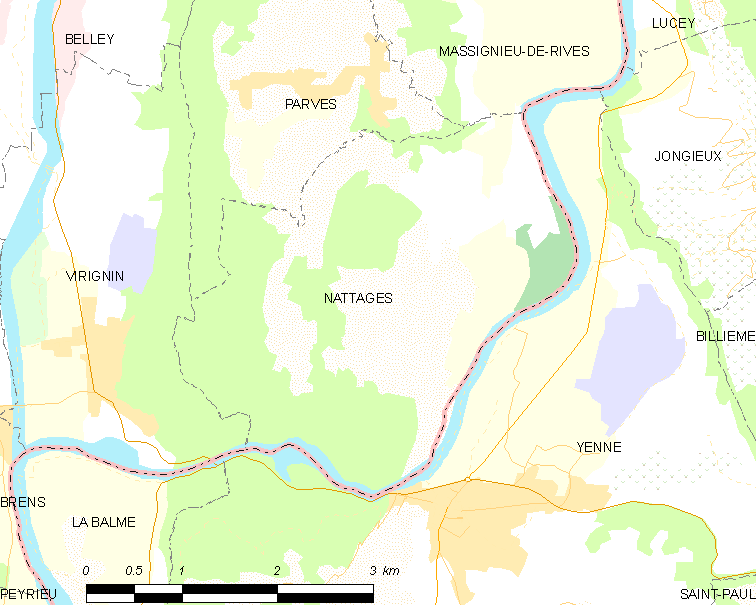 Map of French commune: Nattages Map commune FR insee code 01271.png